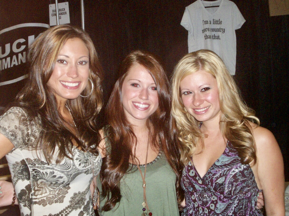 Country music group Carter's Chord, CMA Music Fest, June 2010. L-R: Emily, Joanna, Becky Robertson.